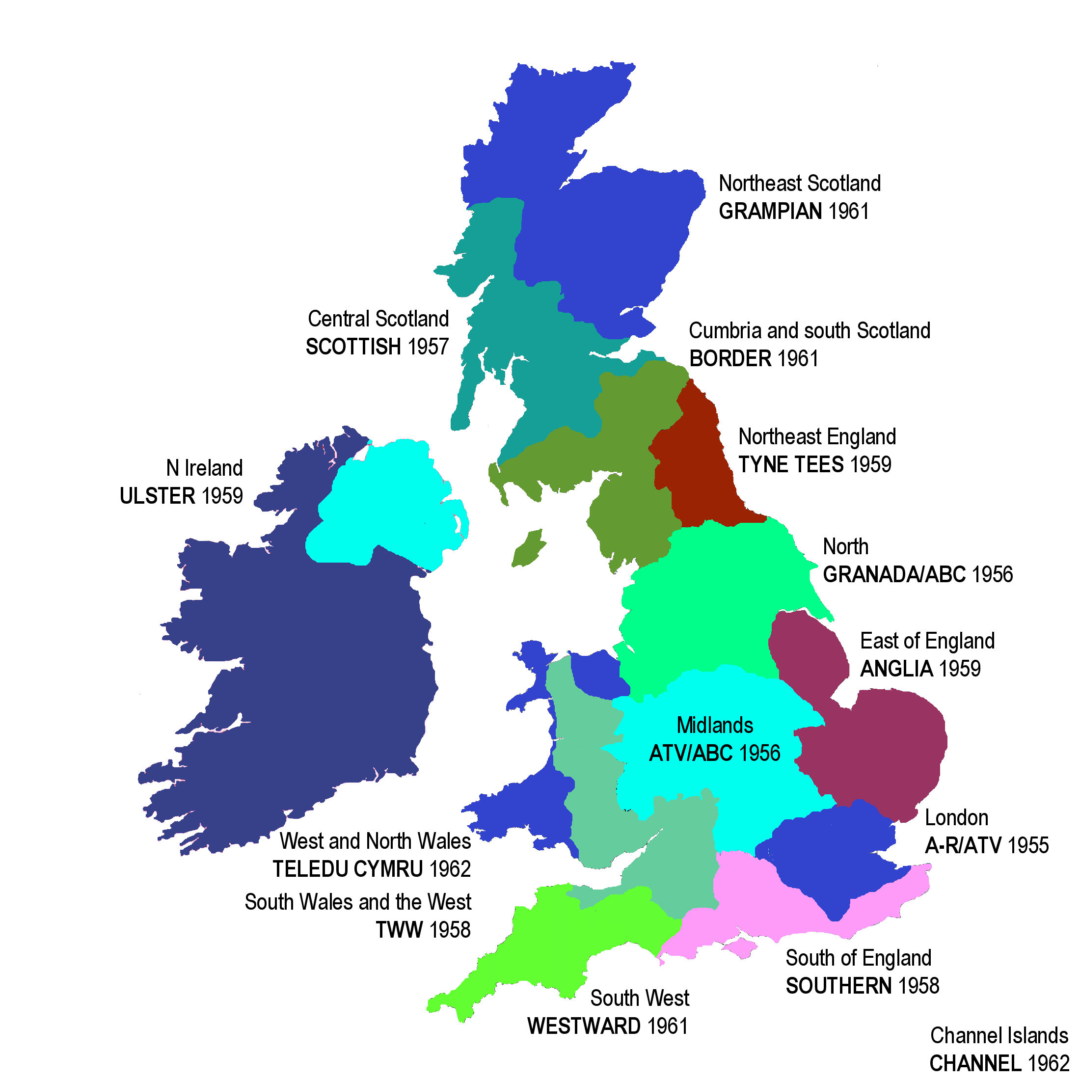 A map of the UK Independent Television (ITV) regions from the completion of the network in 1962 until the first change of contracts following the bankruptcy of WWN Teledu Cymru in 1964. Regions shown are approximate. Overlaps between regions, especially on VHF, were extensive. Boundaries follow, roughly, the areas where the majority of viewers were watching an overlap region, except in cases where a natural boundary (national borders, mountain chains) provide a more sensible break. Overlaps are therefore not shown.